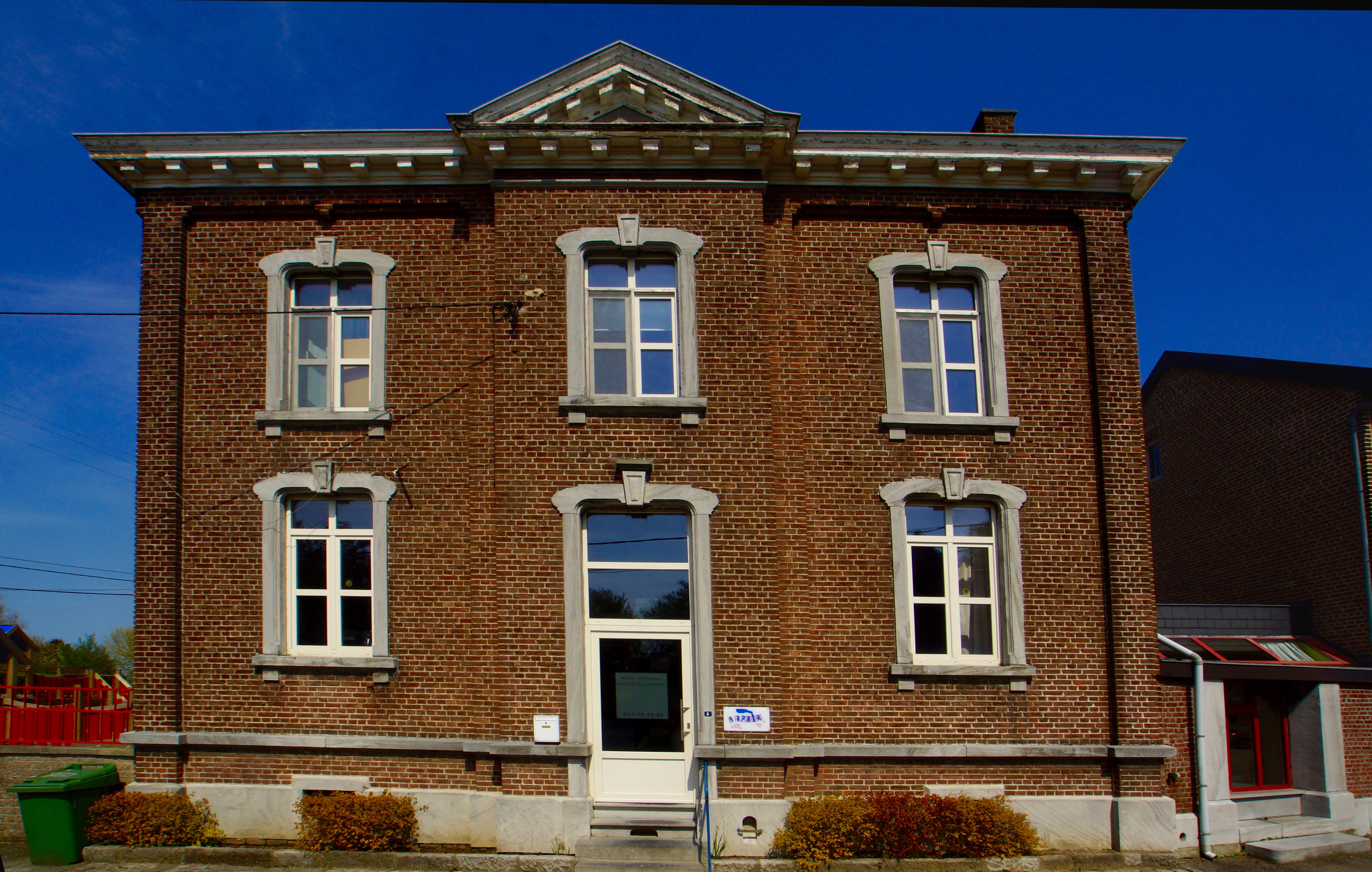 Geer (Ligney), Belgium: Former Town Hall